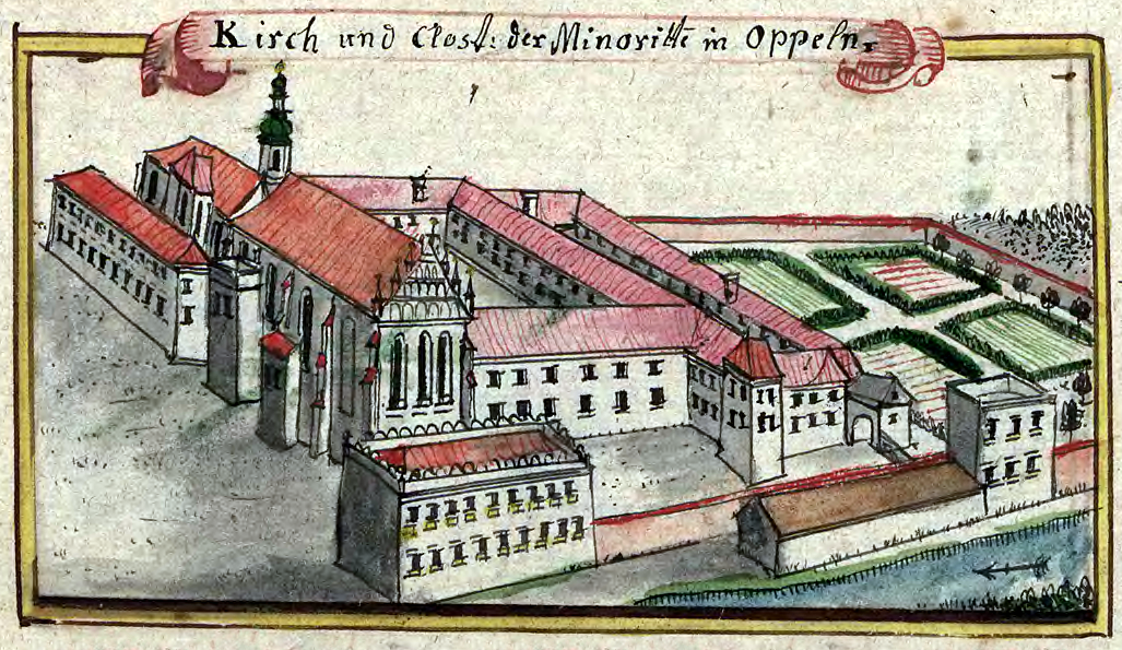 Franciscan monastery in Opole.